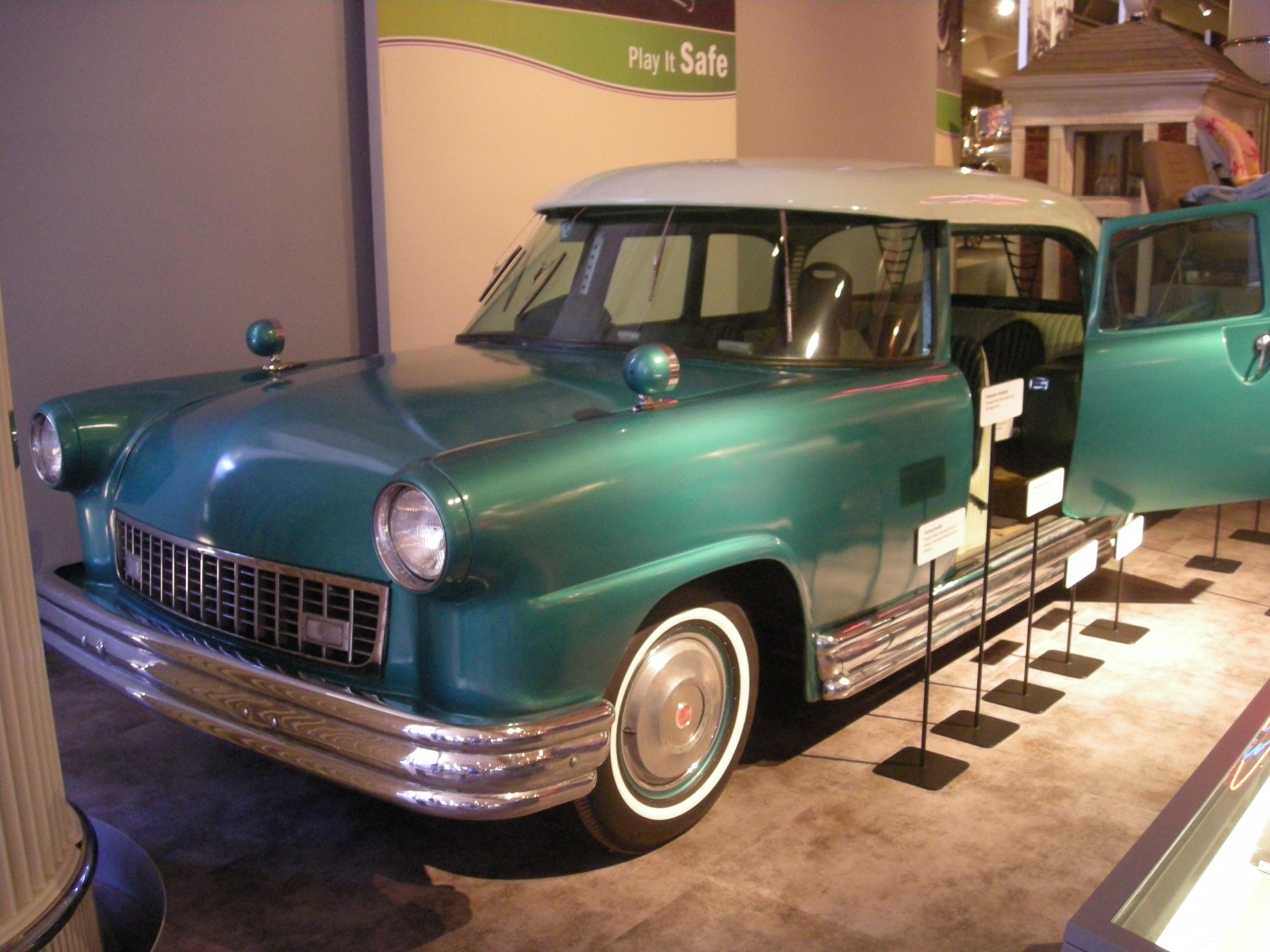 The 1957 Cornell-Liberty Safety Car on display at the Henry Ford Museum in Dearborn, Michigan (United States).